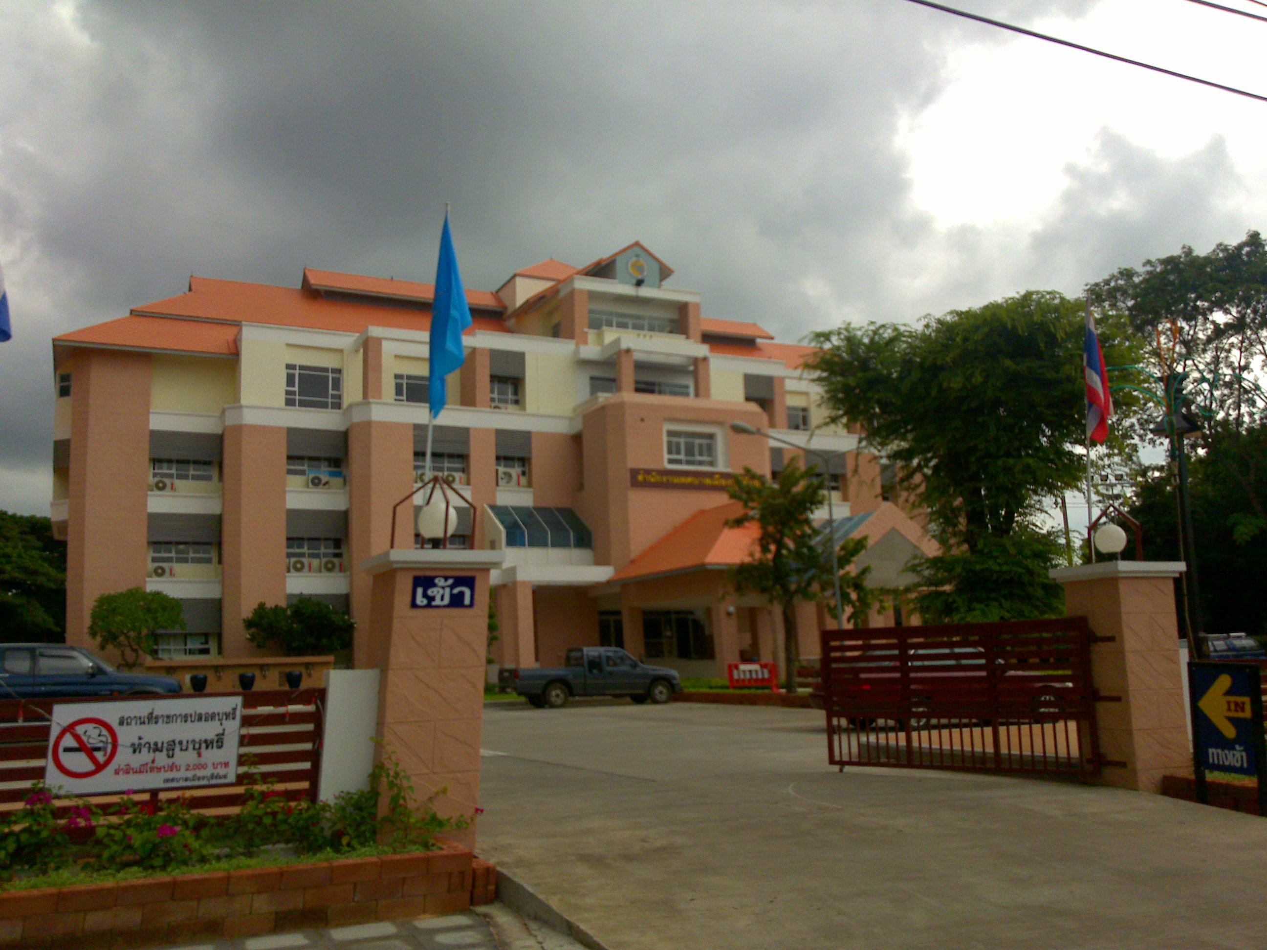 Thessaban Mueang Buriram office